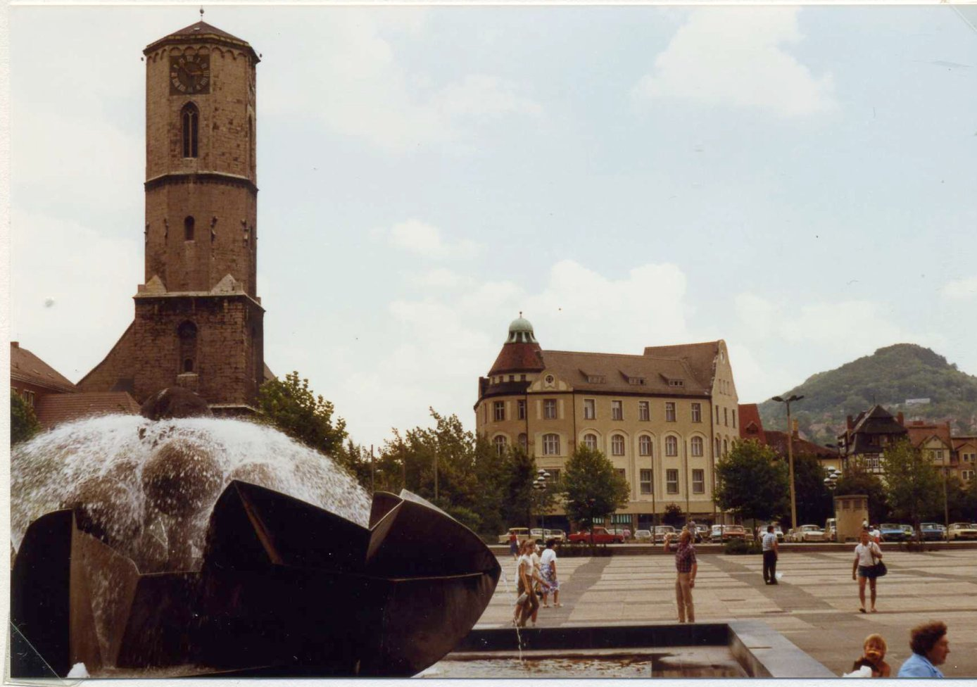 Platz der Cosmonauten (Cosmonauts' Square), Jena, German Democratic Republic, in August 1989